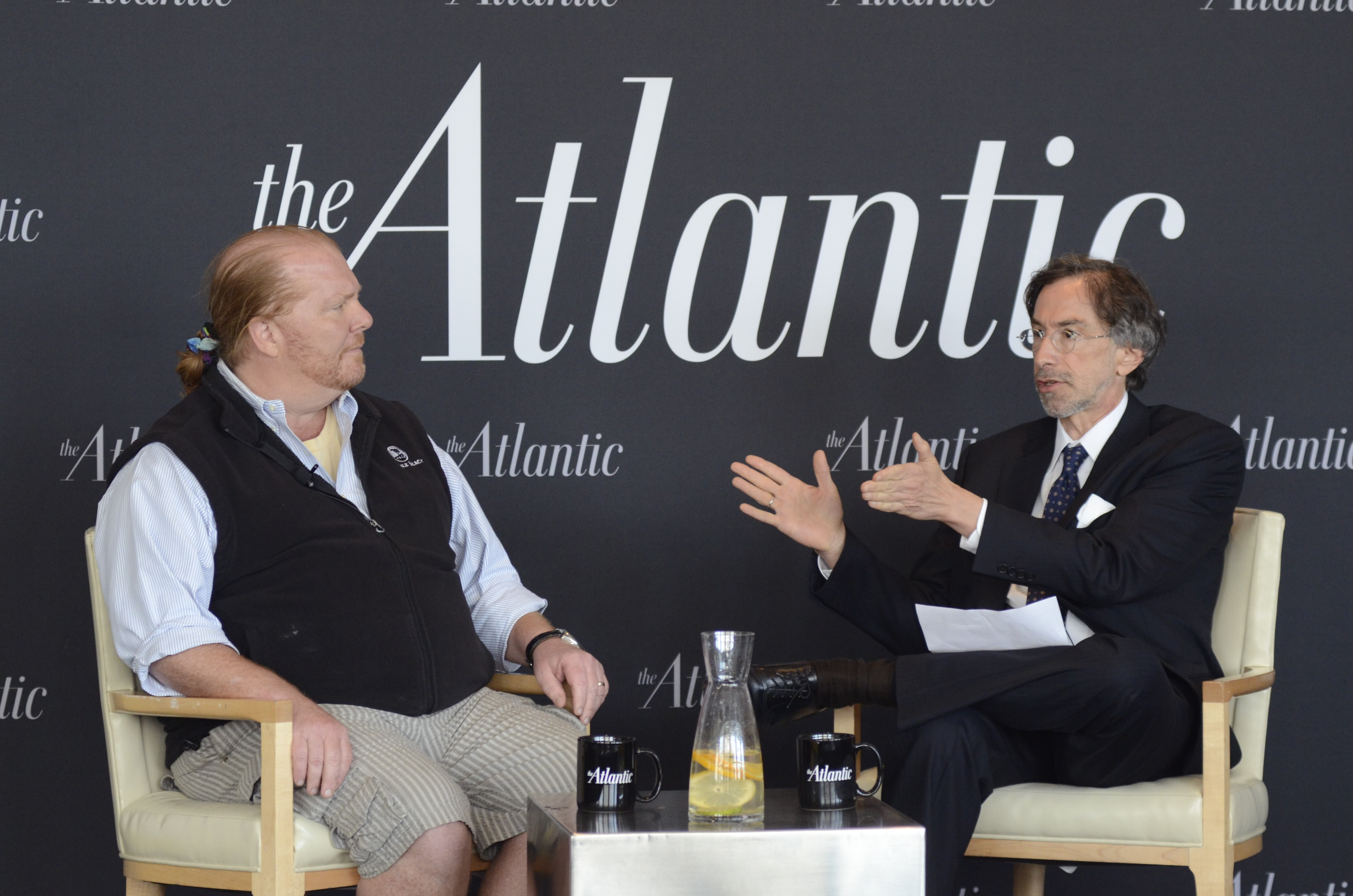 Chef, Restaurateur, Author, and Television Personality Mario Batali (left) was interviewed by The Atlantic Senior Editor Corby Kummer at the 3rd annual Food Summit held at the W Hotel in Washington, D.C. on Thursday, May 24, 2012. The Food Summit event included interviews, panel discussions and symposia with leading authorities on issues related to food, food security, and nutrition. USDA photo by Lance Cheung.